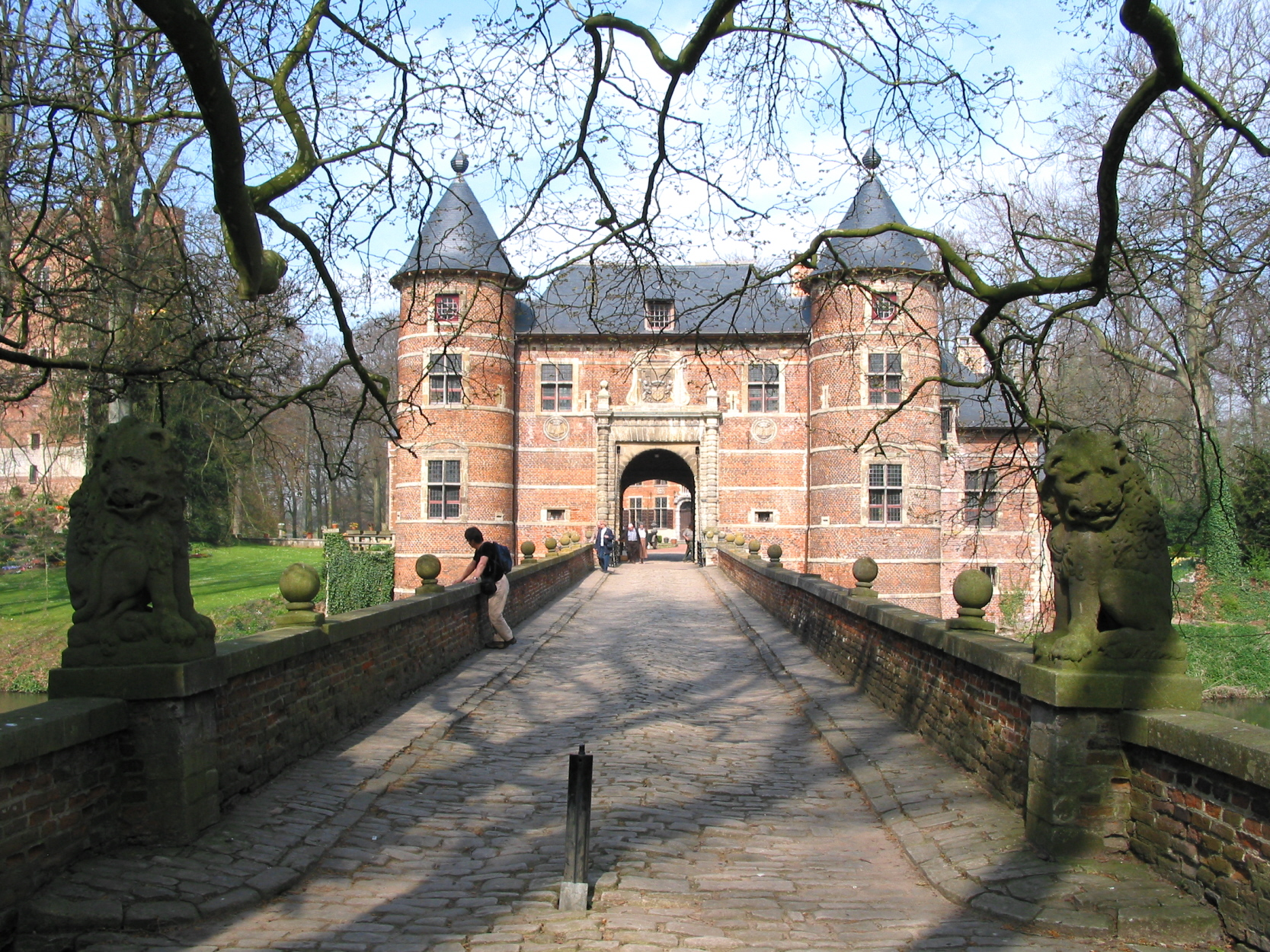 Groot-Bijgaarden (Belgium), the castle (XIV/XVIIth centuries).